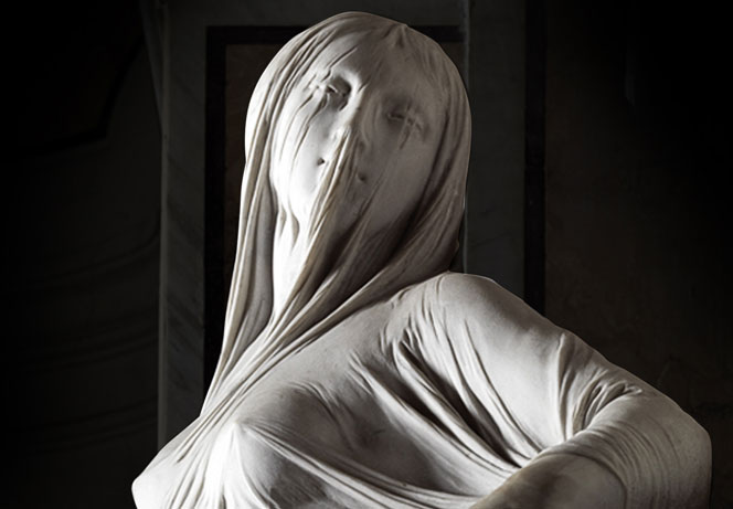 Picture of the Pudiciza Velata exhibited in the Sansevero Chapel